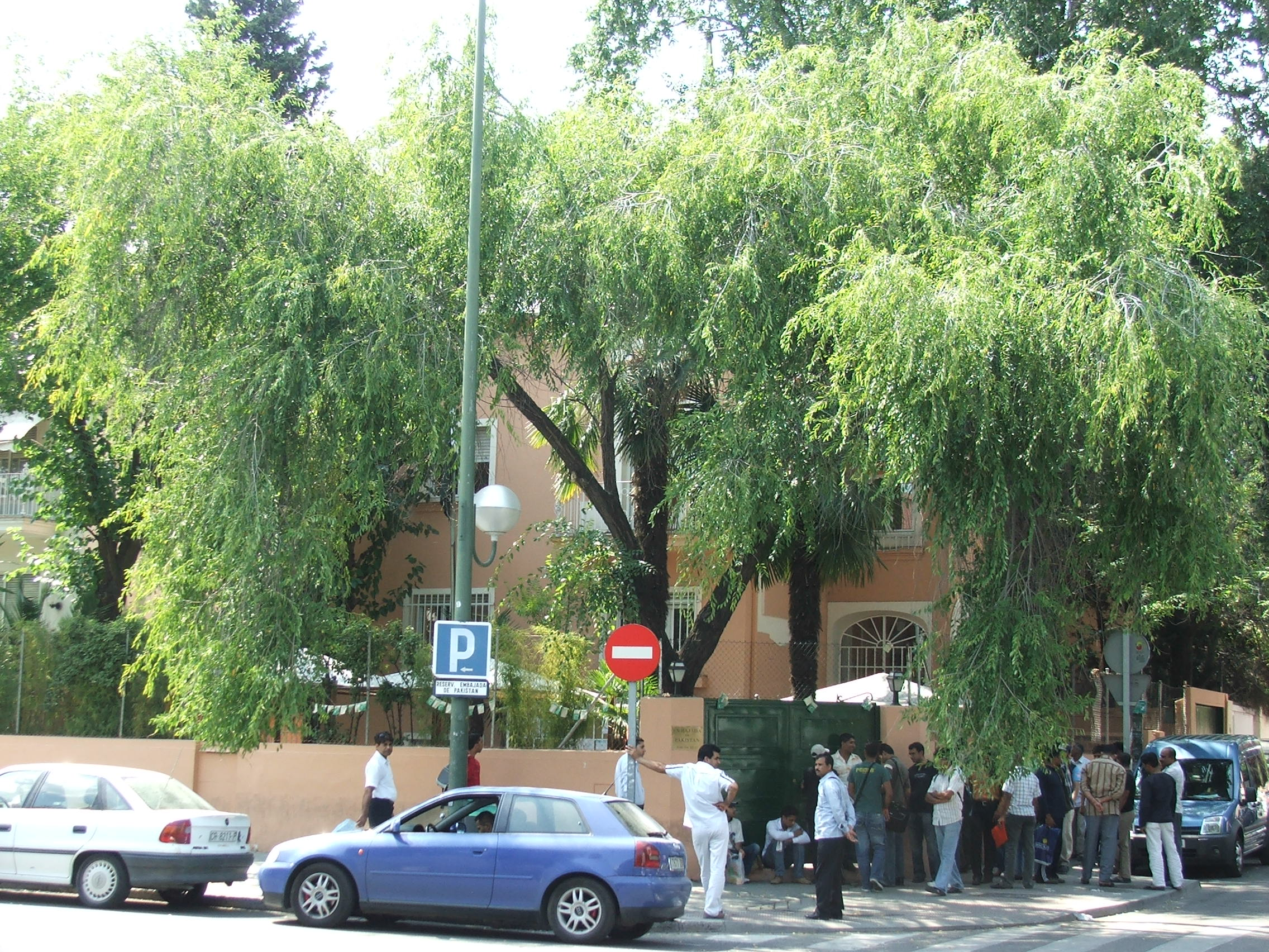 Embassy of Pakistan in Madrid - Spain.